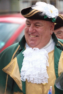 David Hinde Member Of Ancient & Honourable Town Criers & Loyal Company Of Town Criers Lives In Bempton Village, East Riding of Yorkshire, England. David was appointed in Queen Elizabeth II Diamond Jubilee Year 2012 by Bridlington Town Council. In July 2013 David gave a proclamation outside Bridlington Priory for the new Royal Birth of Prince George before the visit of HRH Prince Of Wales & HRH Duchess Of Cornwall to Bridlington priory as part of the Priory 900 celebrations.